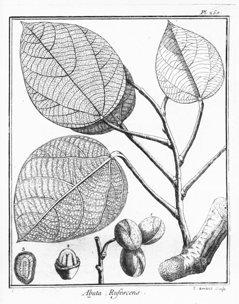 Illustration of Abuta rufescens